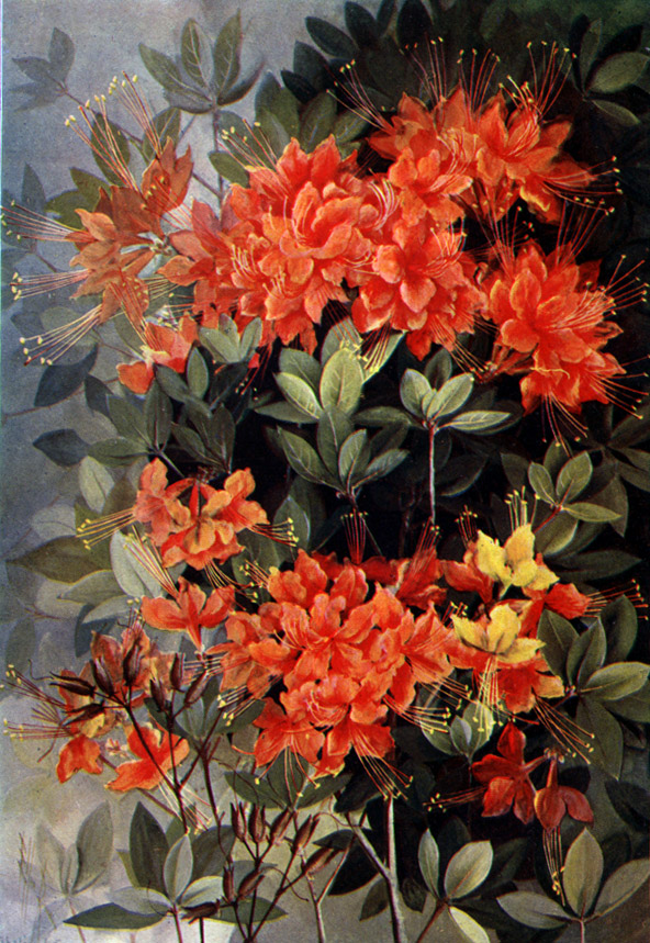 Flame Azalea, Rhododendron calendulaceum offset color reproduction of painting